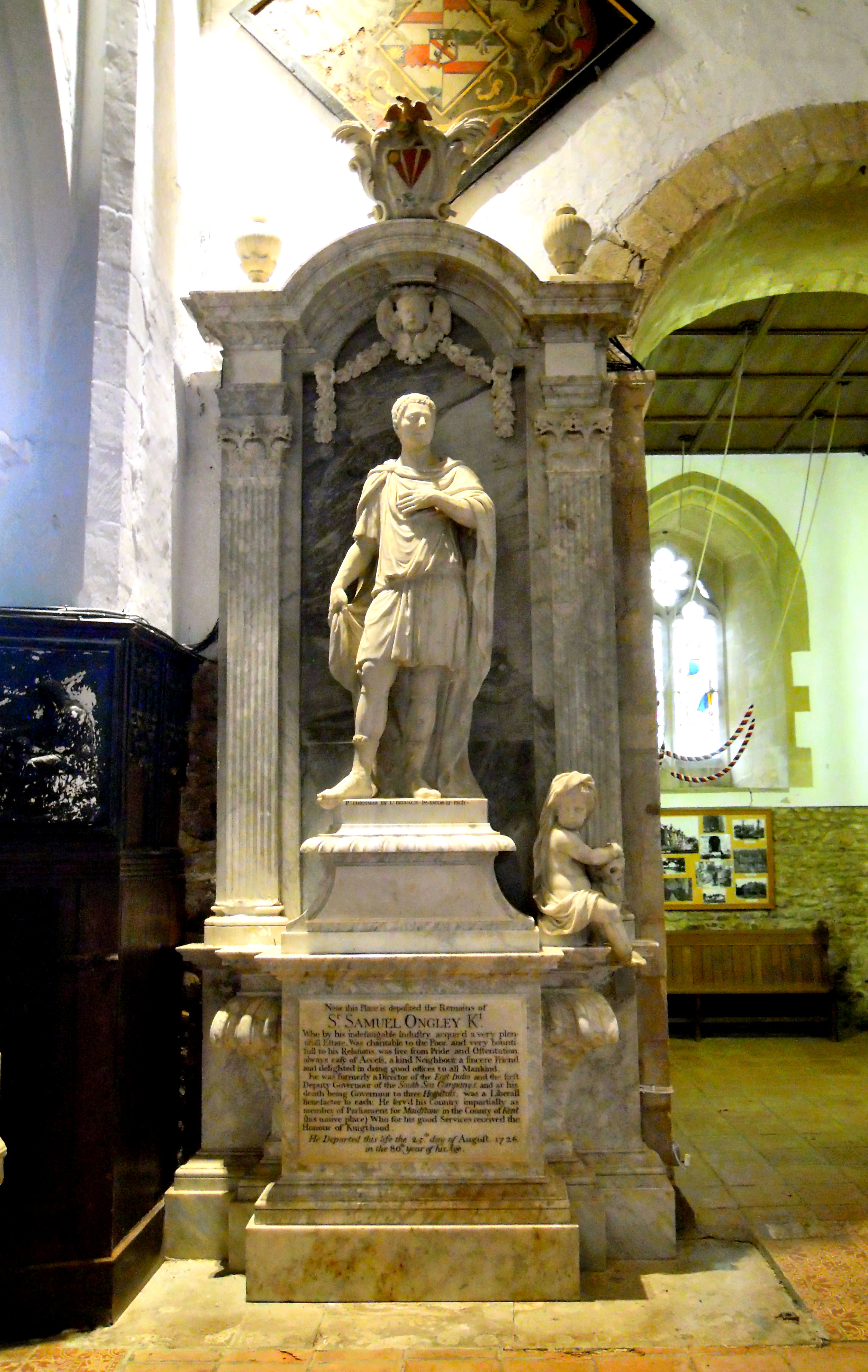 The memorial to Sir Samuel Ongley at St Leonard's in Old Warden in Bedfordshire